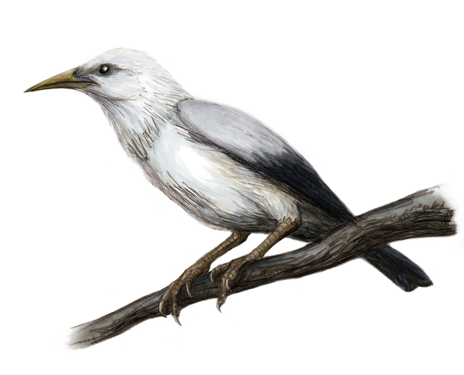 Restoration of the Rodrigues starling (Necropsar rodericanus), based on the single 1700s description by Julien Tafforet, sub-fossil remains, related species, and palaeontological research. Further modified per Hume, J. P. (2014). "Systematics, morphology, and ecological history of the Mascarene starlings (Aves: Sturnidae) with the description of a new genus and species from Mauritius".